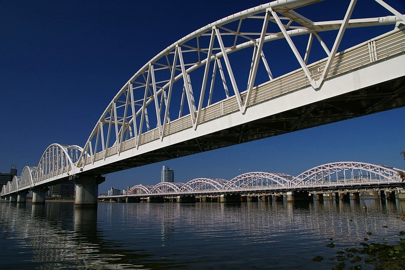 NTT Juso Bridge and Juso Ohashi (bridge), Osaka City, Japan.